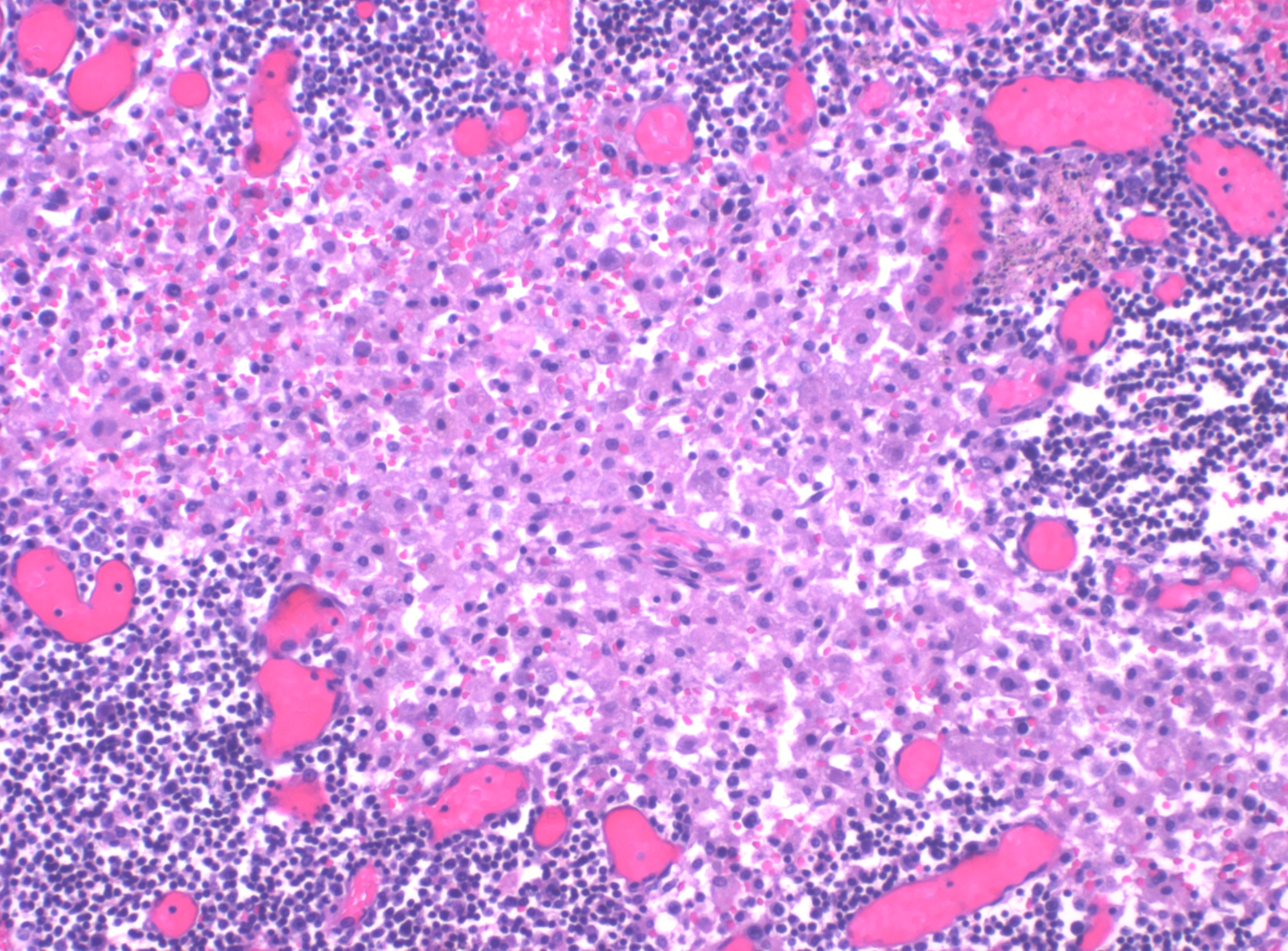 Sinus histiocytosis of a lymph node (intermediate magnification). HE stain.